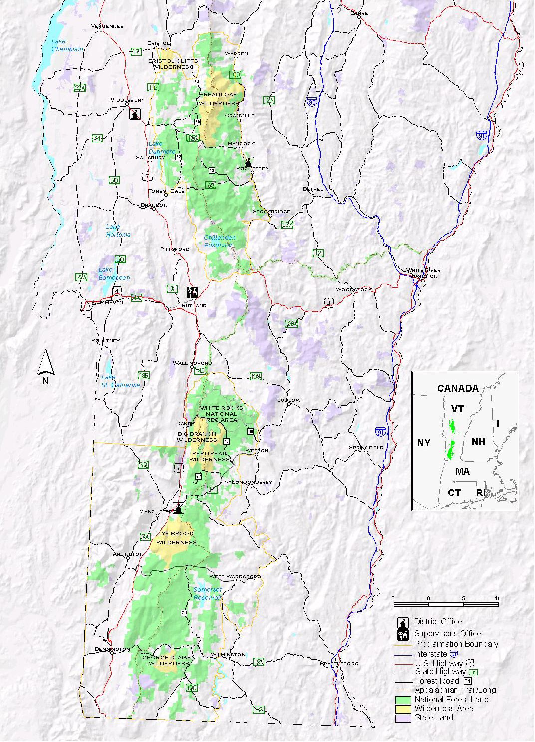 Map of Green Mountain National Forest — Vermont. This image was copied from en. The original description was: Green Mountain National Forest. Transwiki approved by: User:Dmcdevit